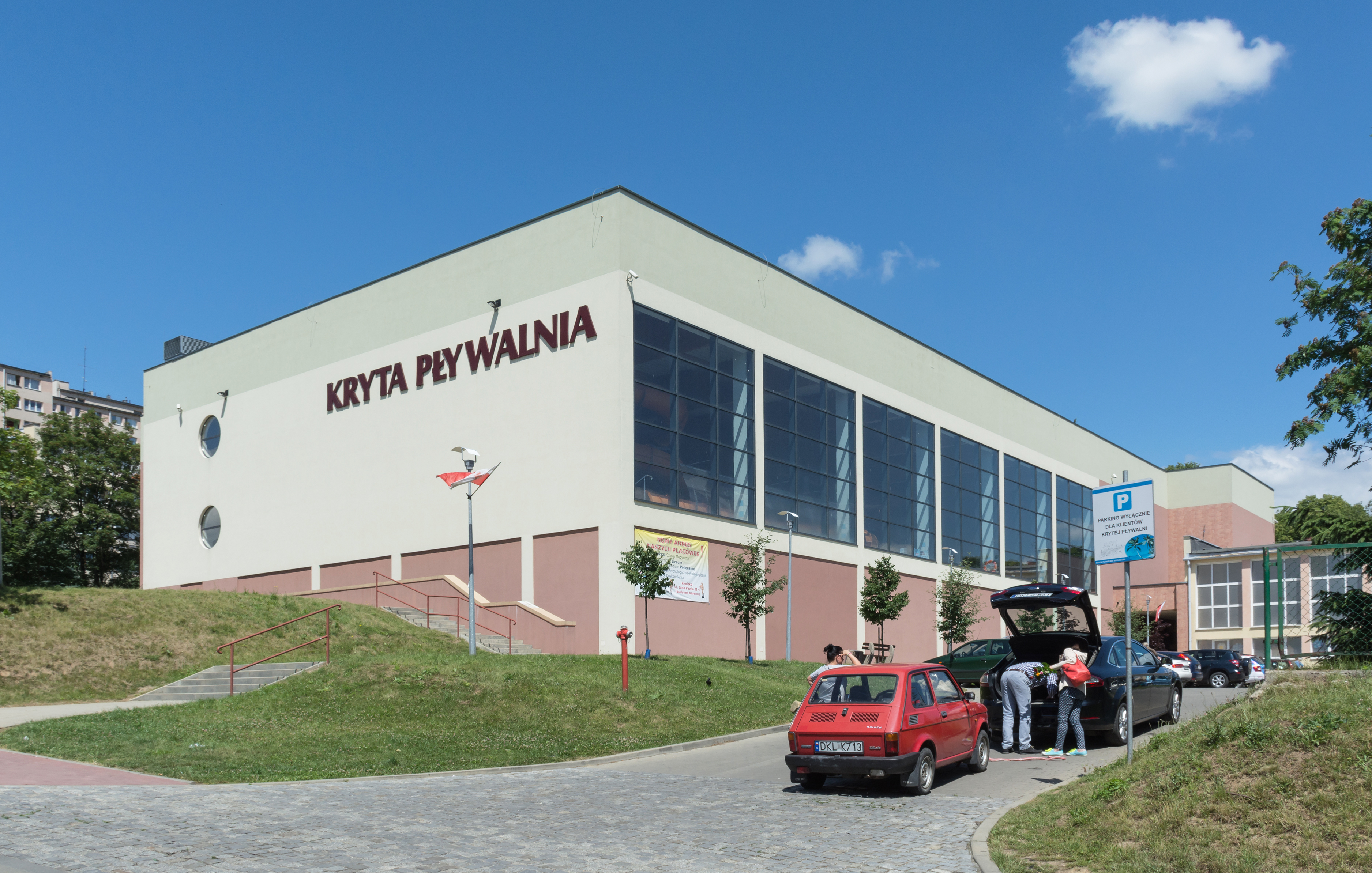 Swimming pool in Kłodzko